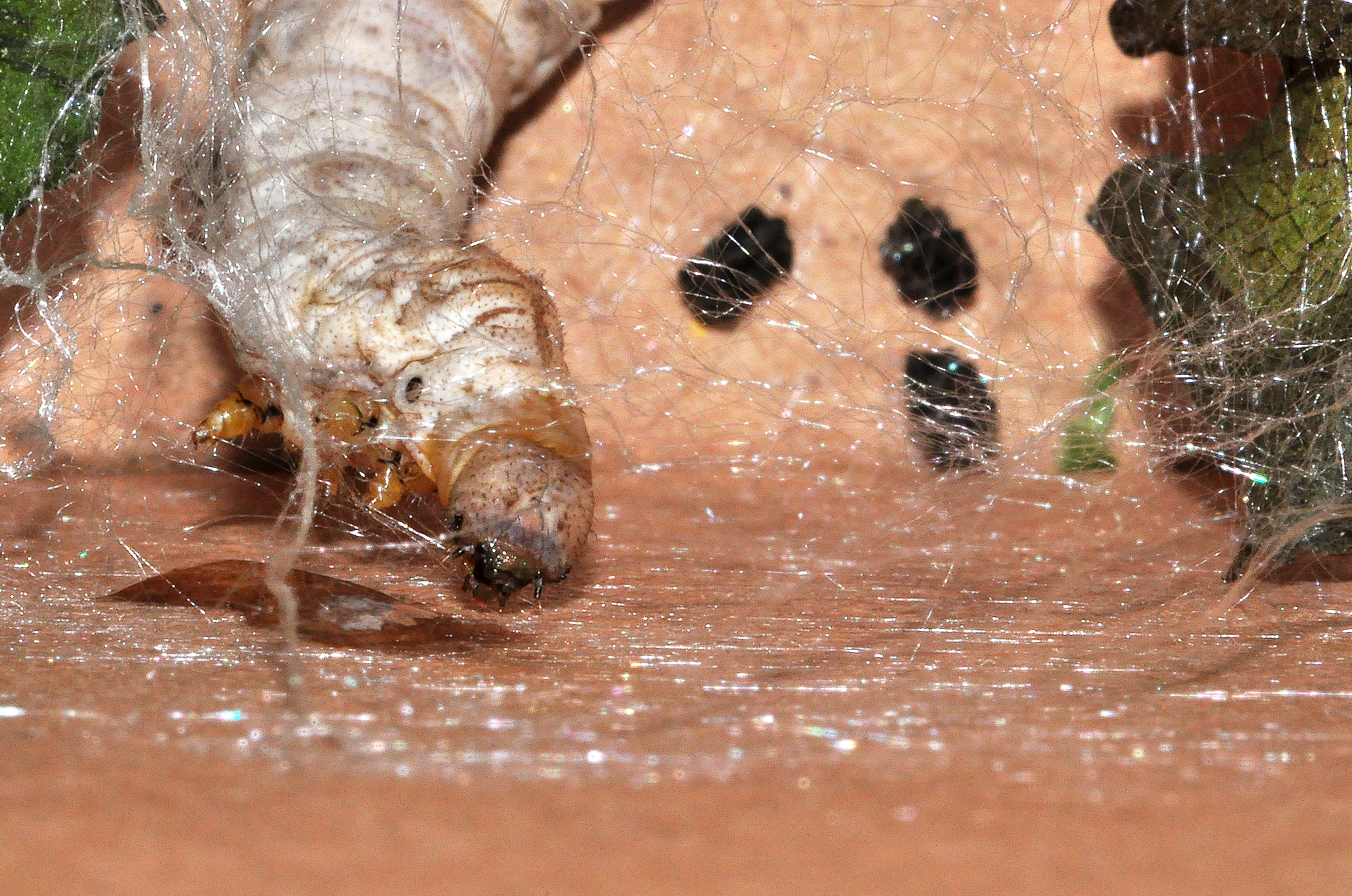 A silkworm spinning a thread, preparing itself for the next level